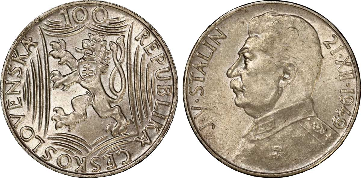 100 Korun célébrant le 70e anniversaire de Staline, argent frappé en 1949